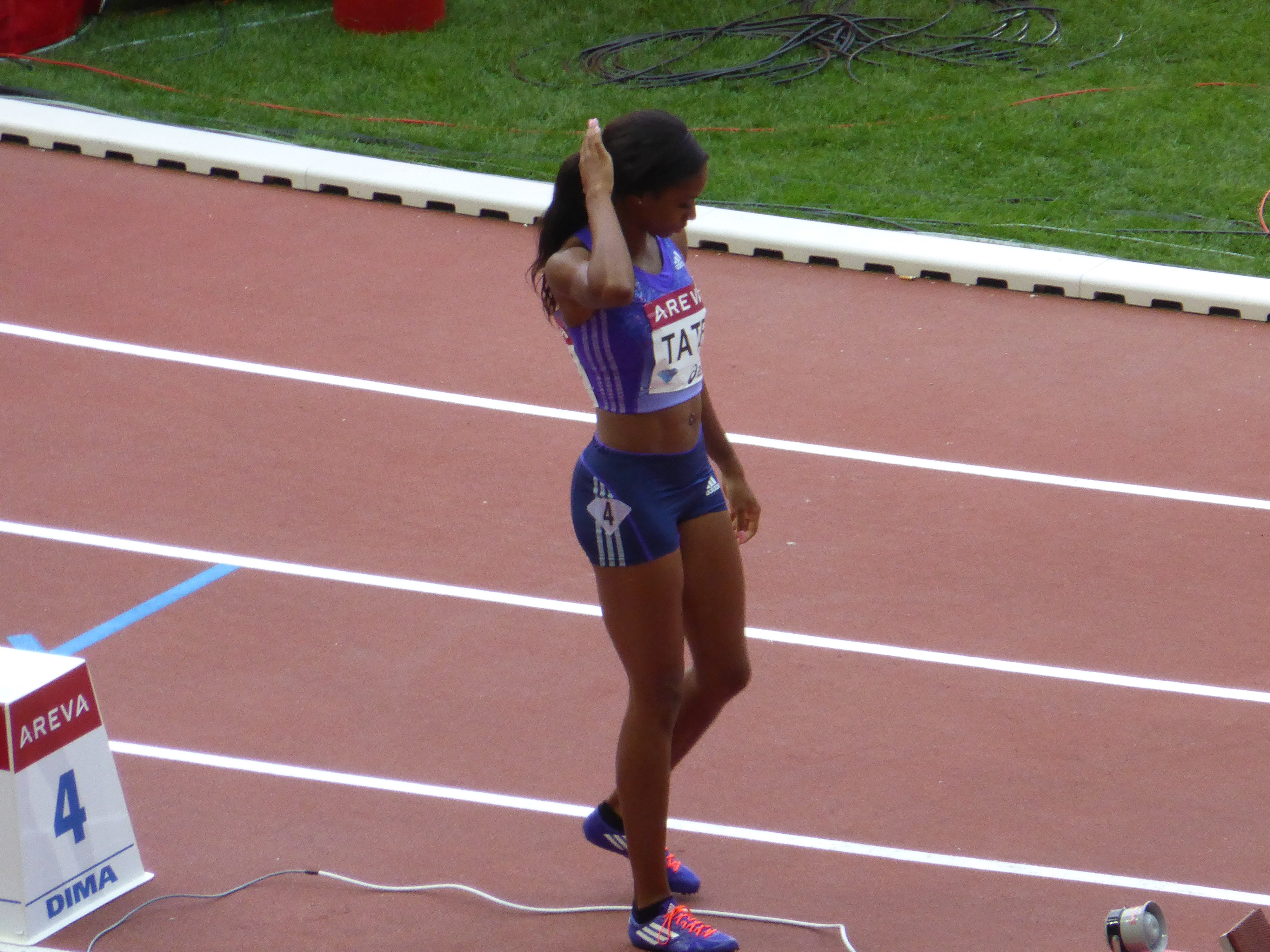 2015 Meeting Areva, Stade de France, Paris. Cassandra Tate